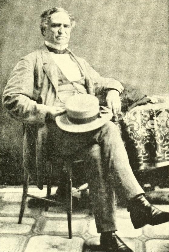 Richard M. Blatchford (1798–1875), U.S. Minister to the Vatican. Photographed in New York, July 30, 1859.